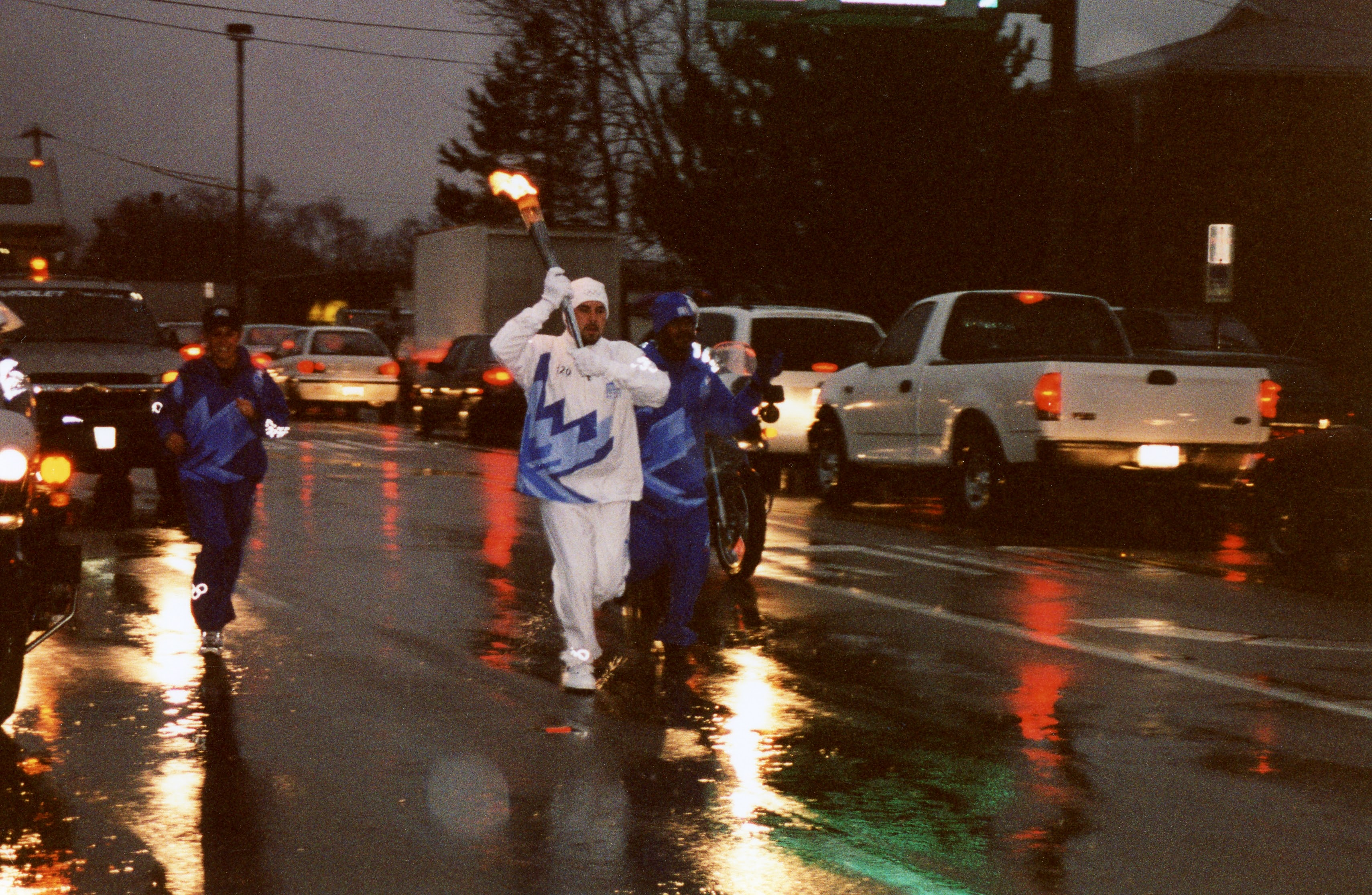 The Olympic Flame relay, North College Hill, Ohio